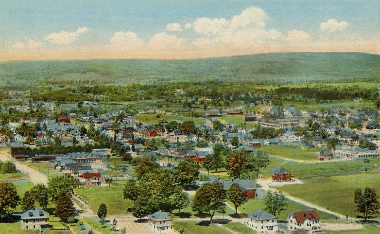 Bird's-eye View from Poet's Seat Tower, Greenfield, MA; from a 1917 postcard.